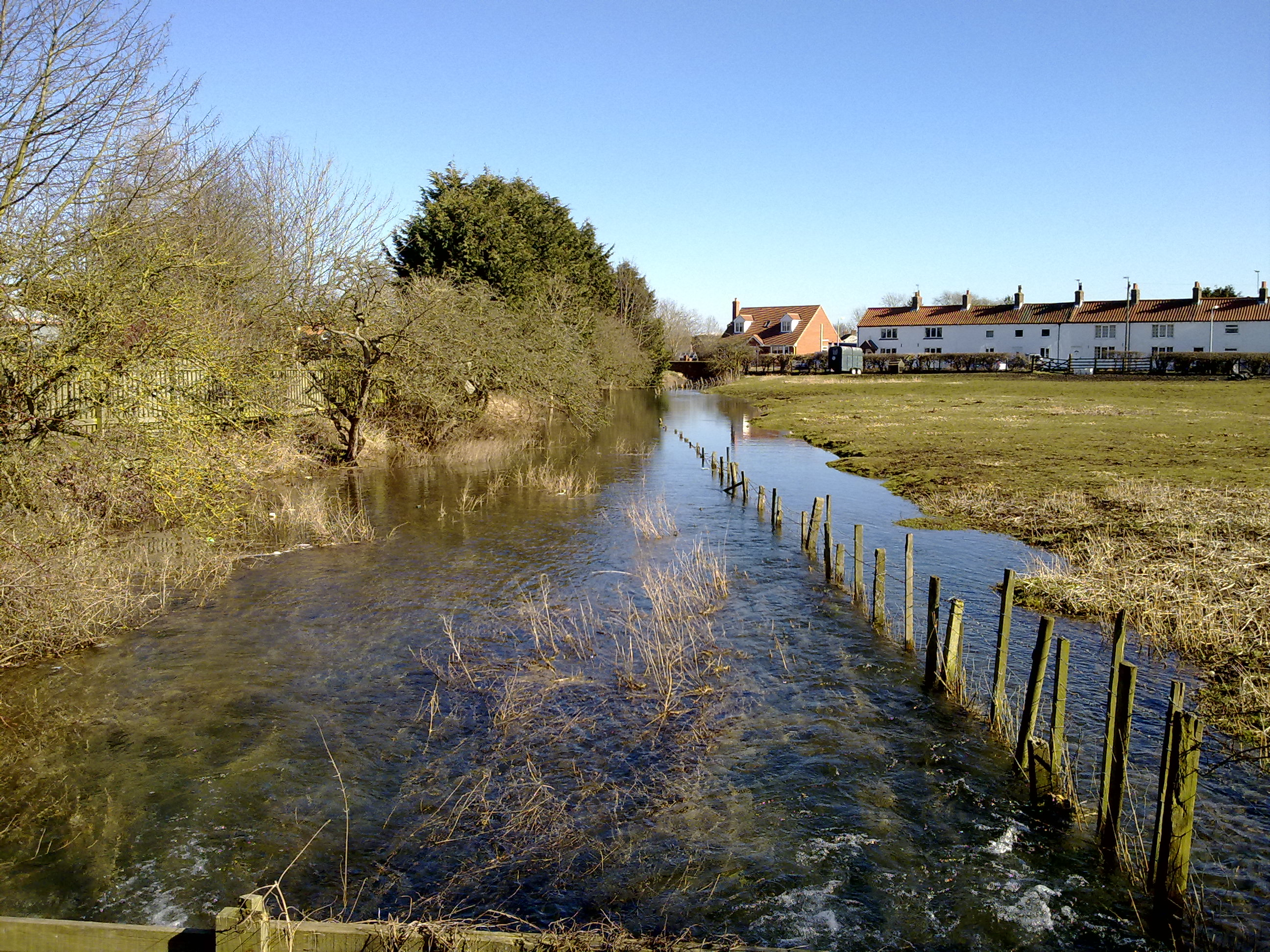 Gypsey Race, Burton Fleming, East Riding of Yorkshire, England.